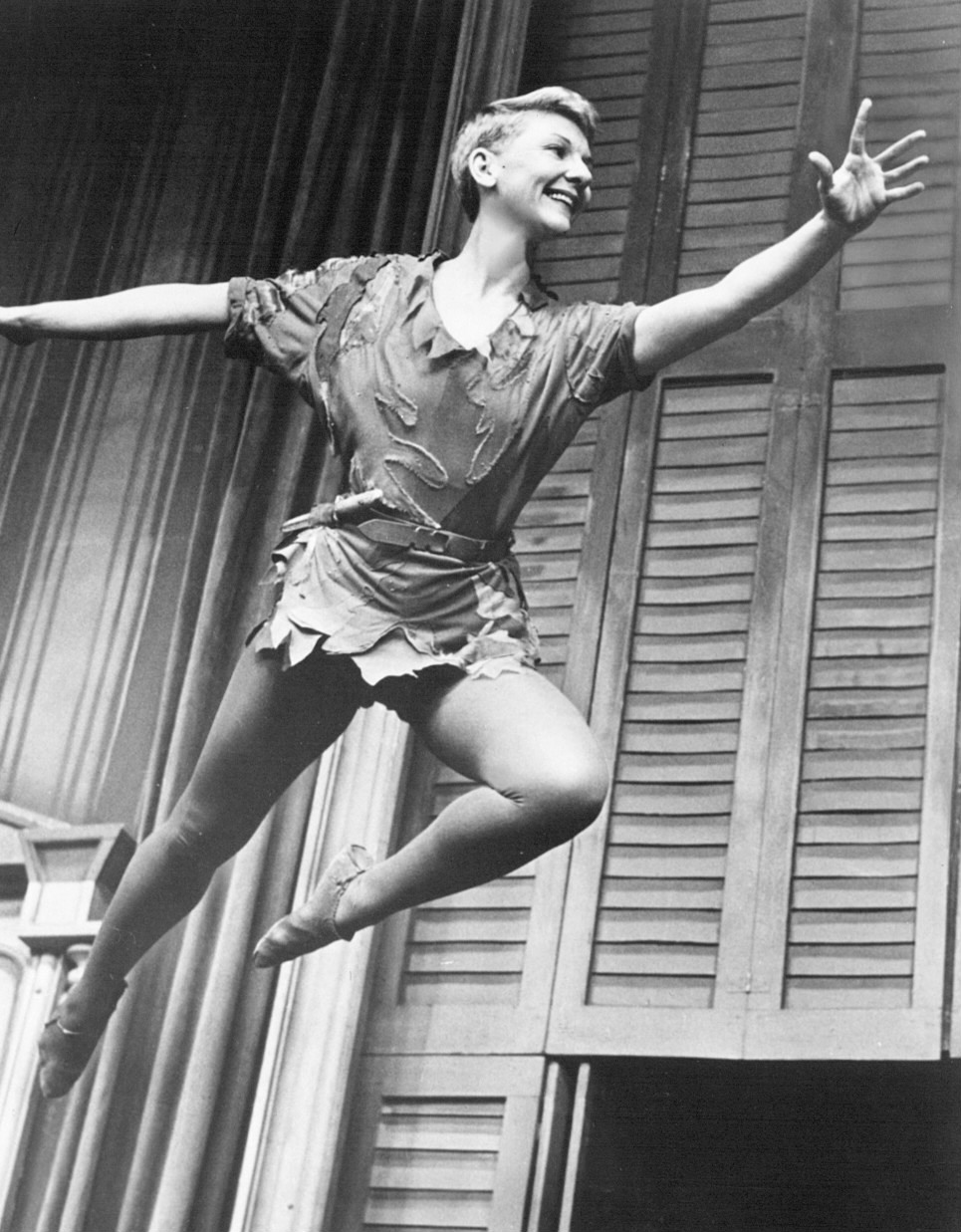 Photo of Mary Martin as Peter Pan from the 1956 presentation on NBC's Producers' Showcase.